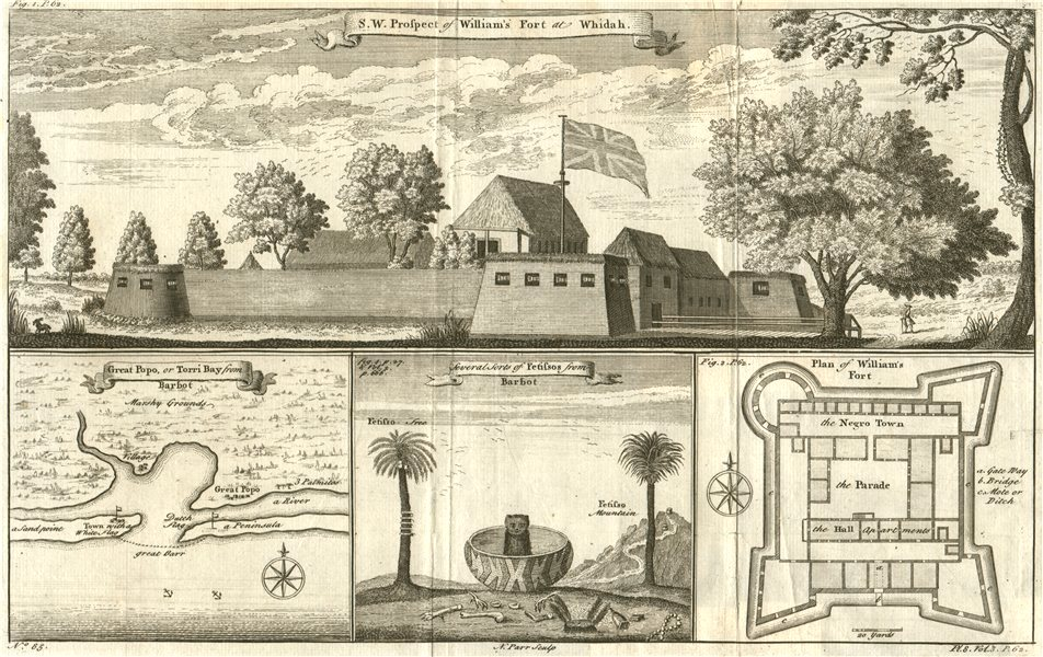 Fort William in Whydah